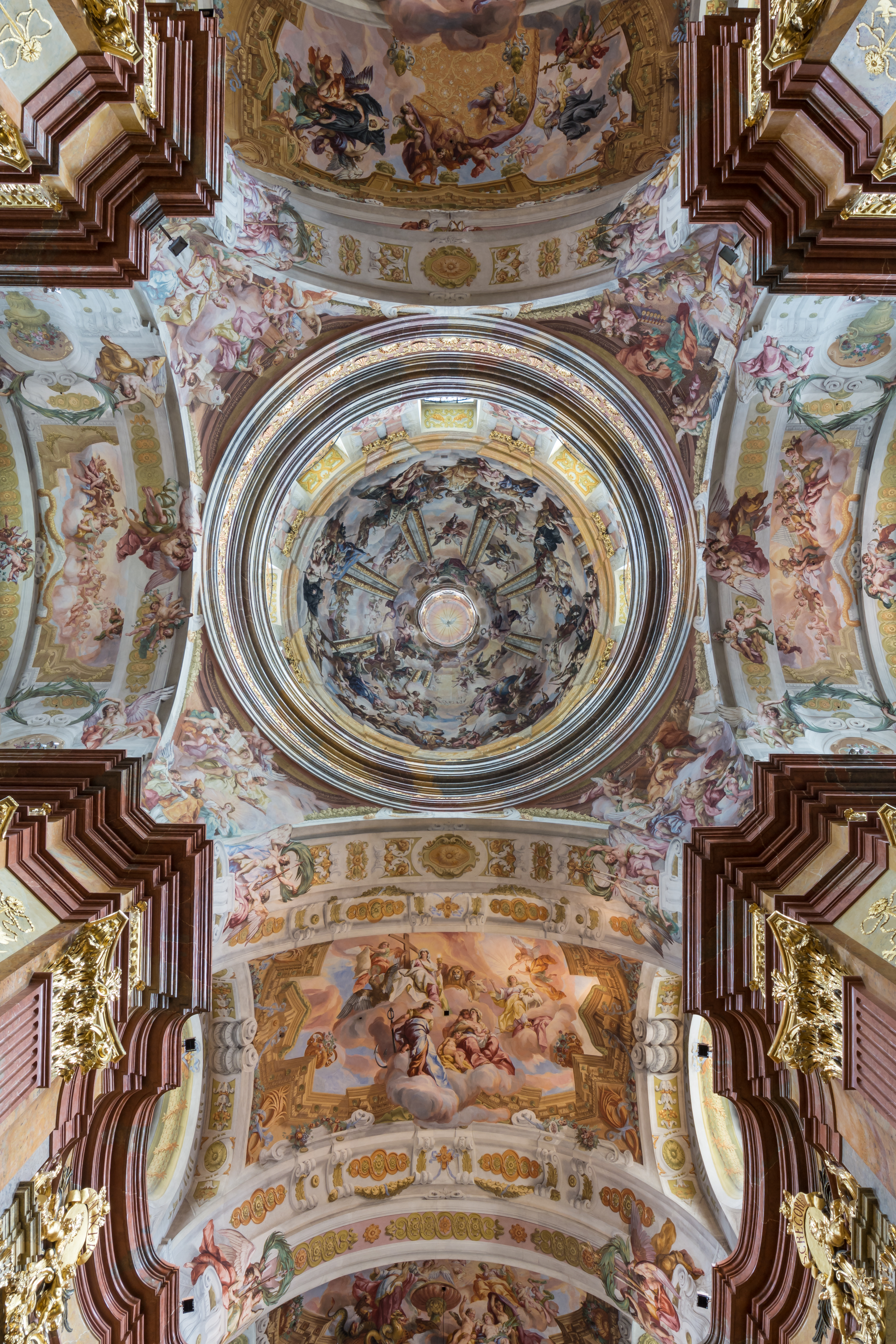 Frescos of dome and ceiling in Melk Abbey Church by Johann Michael Rottmayr (1716-22)